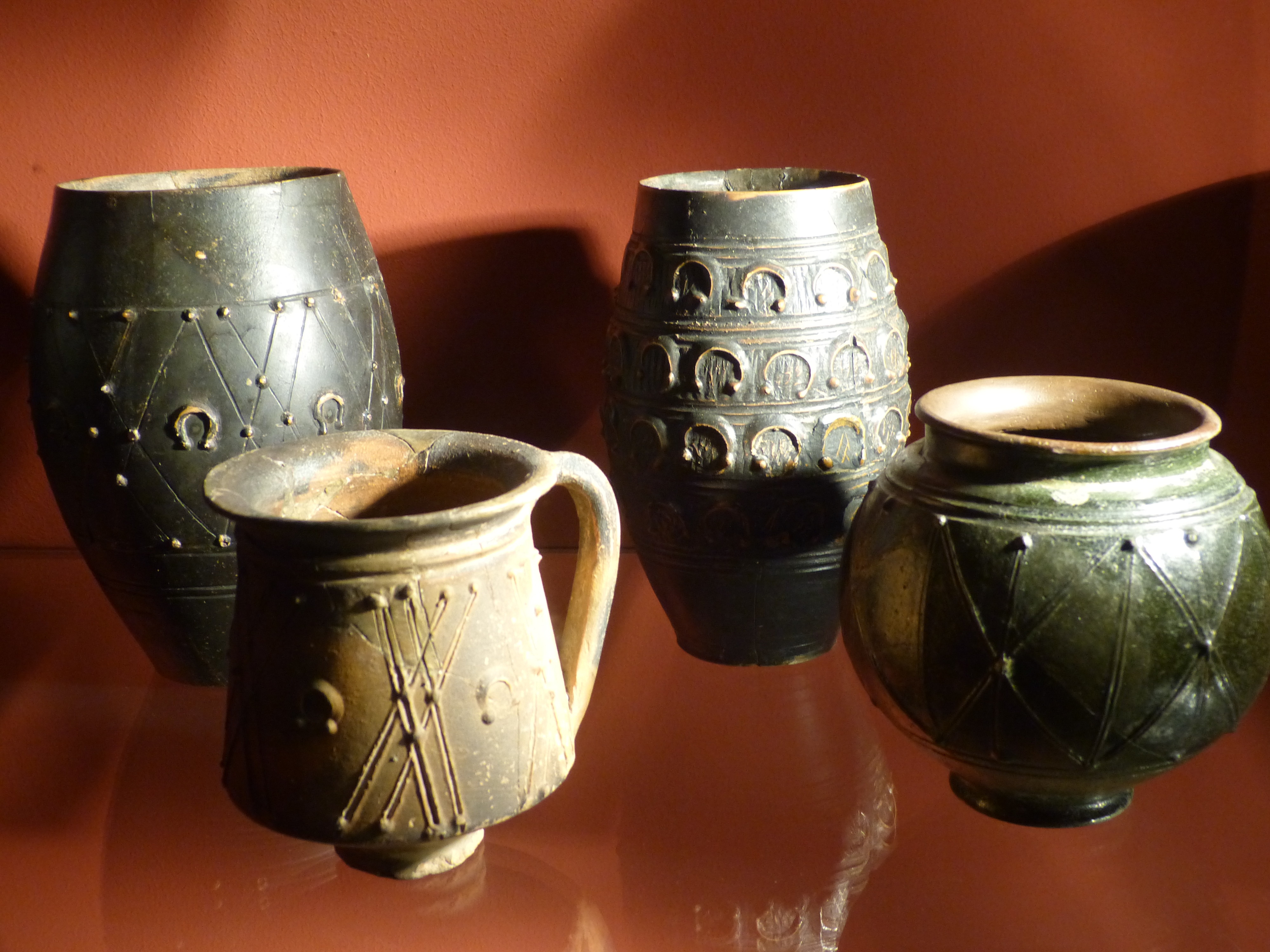 Straubing ( Lower Bavaria ). Gäubodenmuseum: Ancient Roman pottery, so called "Raetian ware".